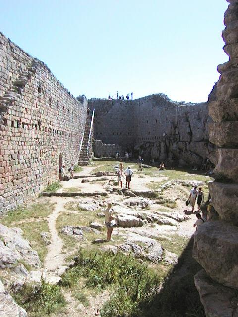 Château de Montségur - inner courtyard